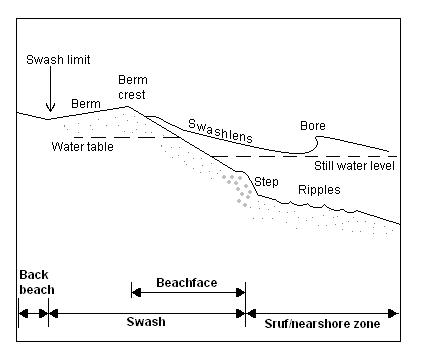 Shows terminology and principal processes.